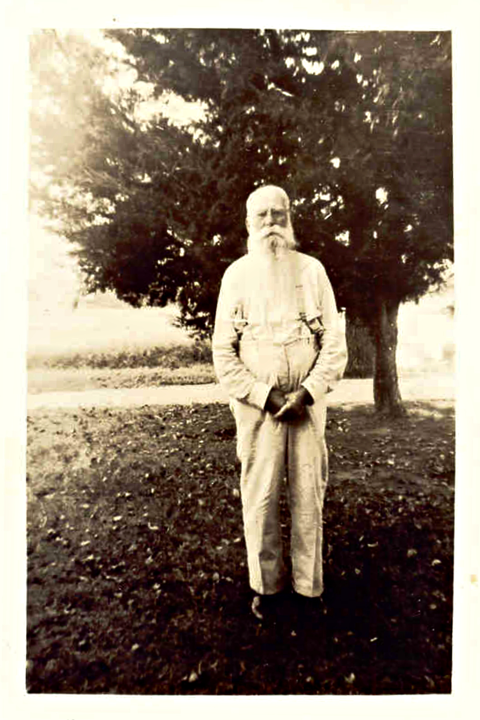 A picture of Stevie Ray Vaughan's paternal great-grandfather, circa 1900s.